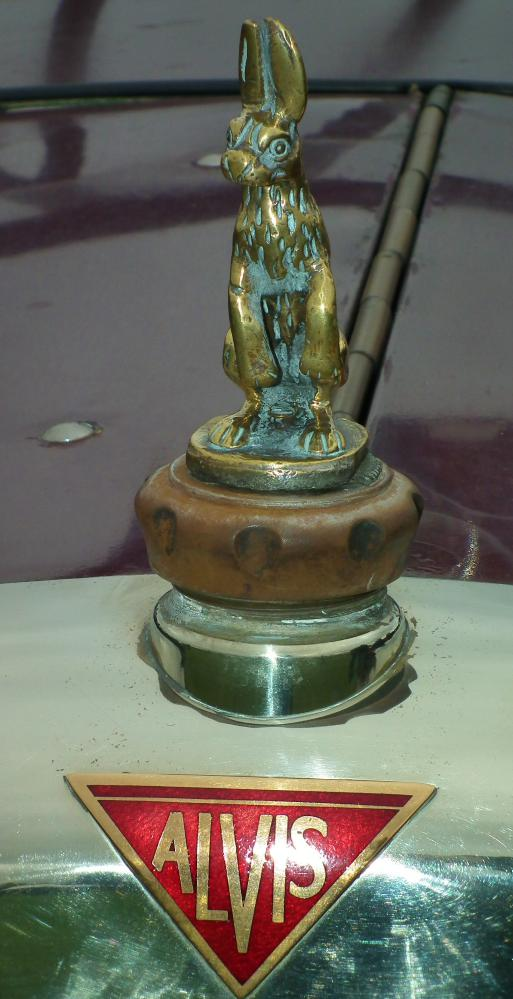 Alvis hare on a 12/50 2-seater (1928 Alvis TG 1250 1600cc)